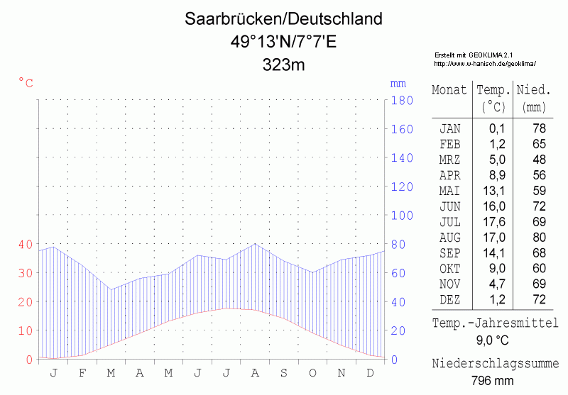 climate chart in the format by Walther and Lieth, metric, °Celsisus and millimeters, made with Geoklima 2.1